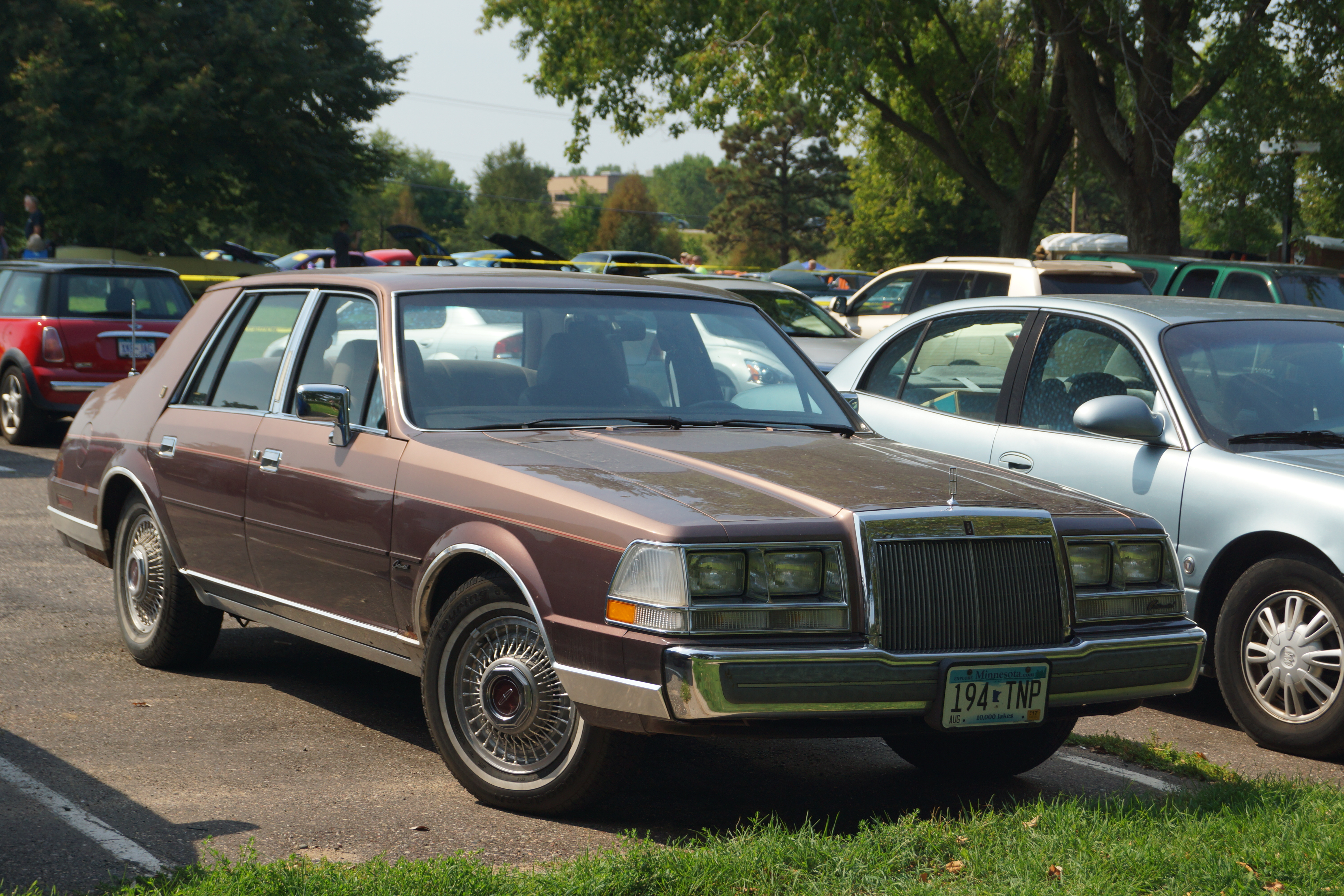 50th Annual Twin Cities Collectors Car Show & Swap Meet Hosted by North Central Chapter Hudson Essex Terraplane Club Aquatore Park Blaine, Minnesota September 2017 ******** Click here for more car pictures at my Flickr site. Or here for my Car Crazy Tumblr site. Or on Twitter @DVS1mn.